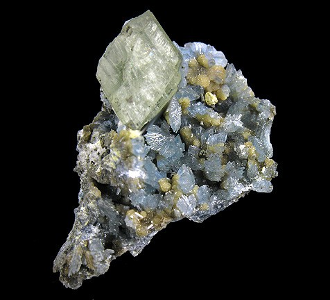 Paravauxite, Vauxite Locality: Siglo Veinte Mine (Siglo XX Mine; Llallagua Mine; Catavi), Llallagua, Rafael Bustillo Province, Potosí Department, Bolivia (Locality at ) Size: 2.3 x 1.5 x 0.8 cm. This piece is a fine, very well crystallized, very rare specimen consisting of tabular blades of greenish-white Paravauxite on small, radiating, beautiful blue color aggregates of Vauxite with minor brownish-tan color Childrenite on white clay (probably decomposed Allophane) matrix. This piece is from the type locality for Vauxite and Paravauxite which were originally discovered along the Contacto and San Jose veins in this mine and first described by Sam Gordon and Mark Bandy. From the new find of 2009.